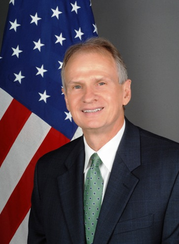 Jerry P. Lanier, U.S. diplomat. As of 2009, U.S. ambassador to Uganda.